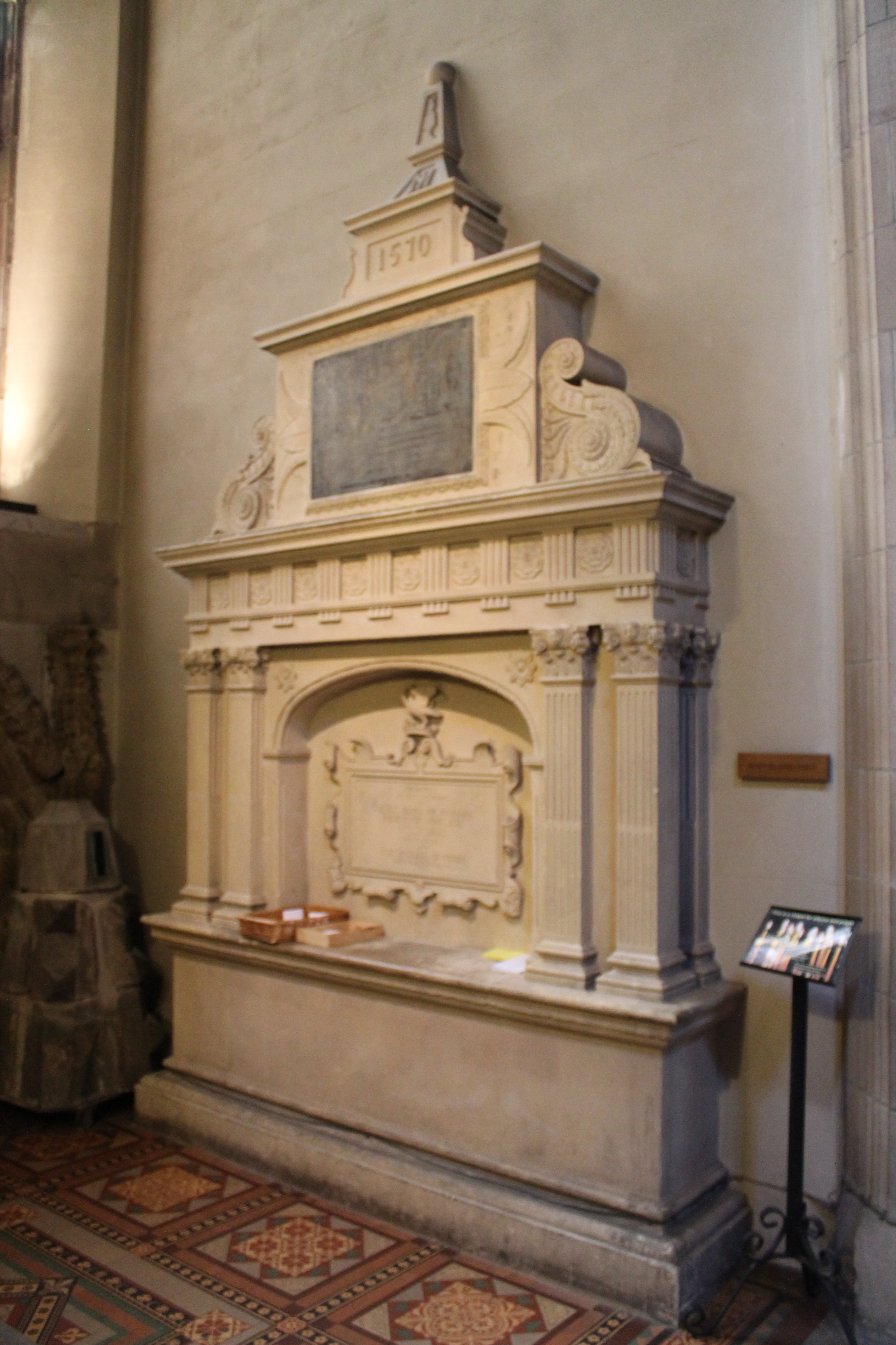 19th century replica of the 16th century memorial to James Stewart, Earl of Moray in the Holy Blood Aisle of St Giles' Cathedral, Edinburgh. The monument incorporates of a plaque from the original monument.